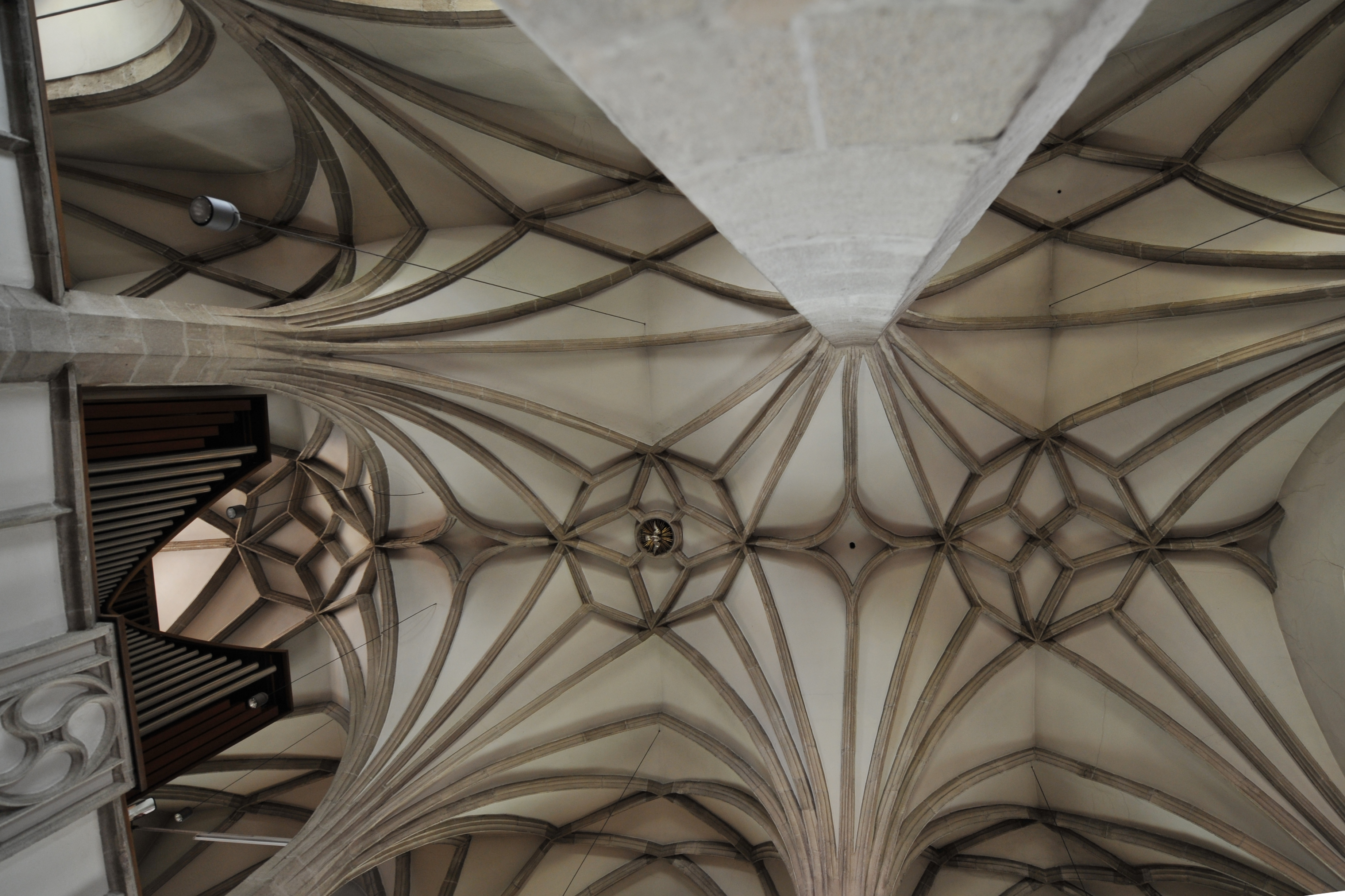 The making of this work was supported by Wikimedia Austria. For other files made with the support of Wikimedia Austria, please see the category Supported by Wikimedia Österreich. Perg Katholische Pfarrkirche Apostel Jakobus der Ältere